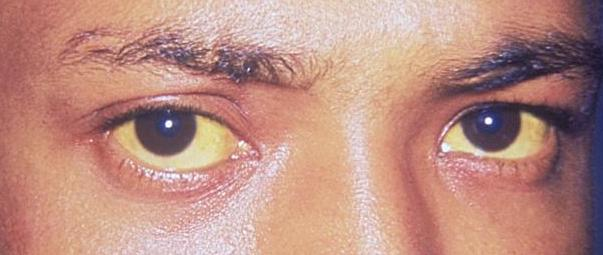 The viral disease Hepatitis A is manifested here as icterus, or jaundice of the conjunctivae and facial skin. HAV is usually spread from person to person by putting something in the mouth (even though it may look clean) that has been contaminated with the stool of a person with hepatitis A. Adults will have signs and symptoms more often than children.